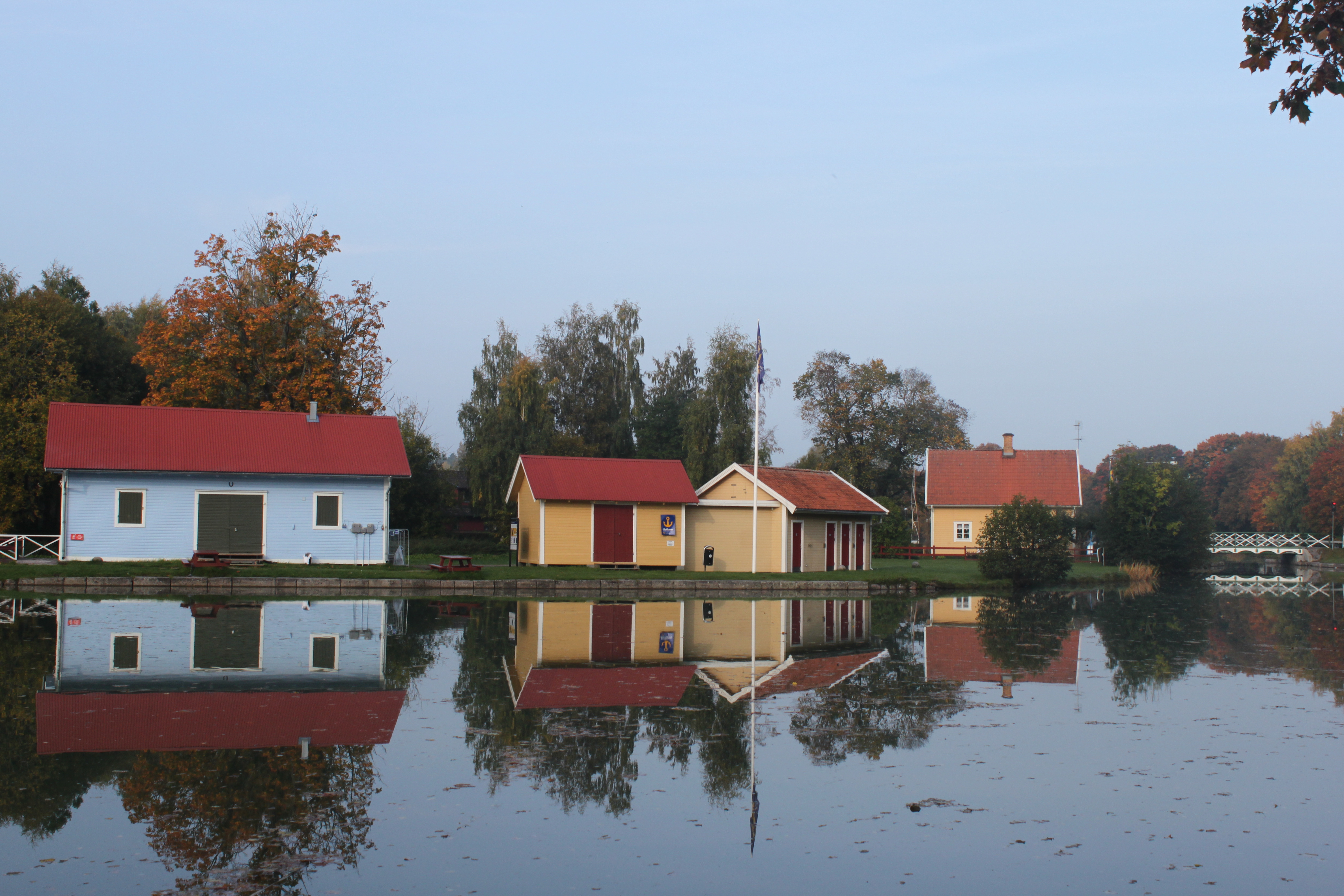 Gota canal, Canal harbor in Ljungsbro